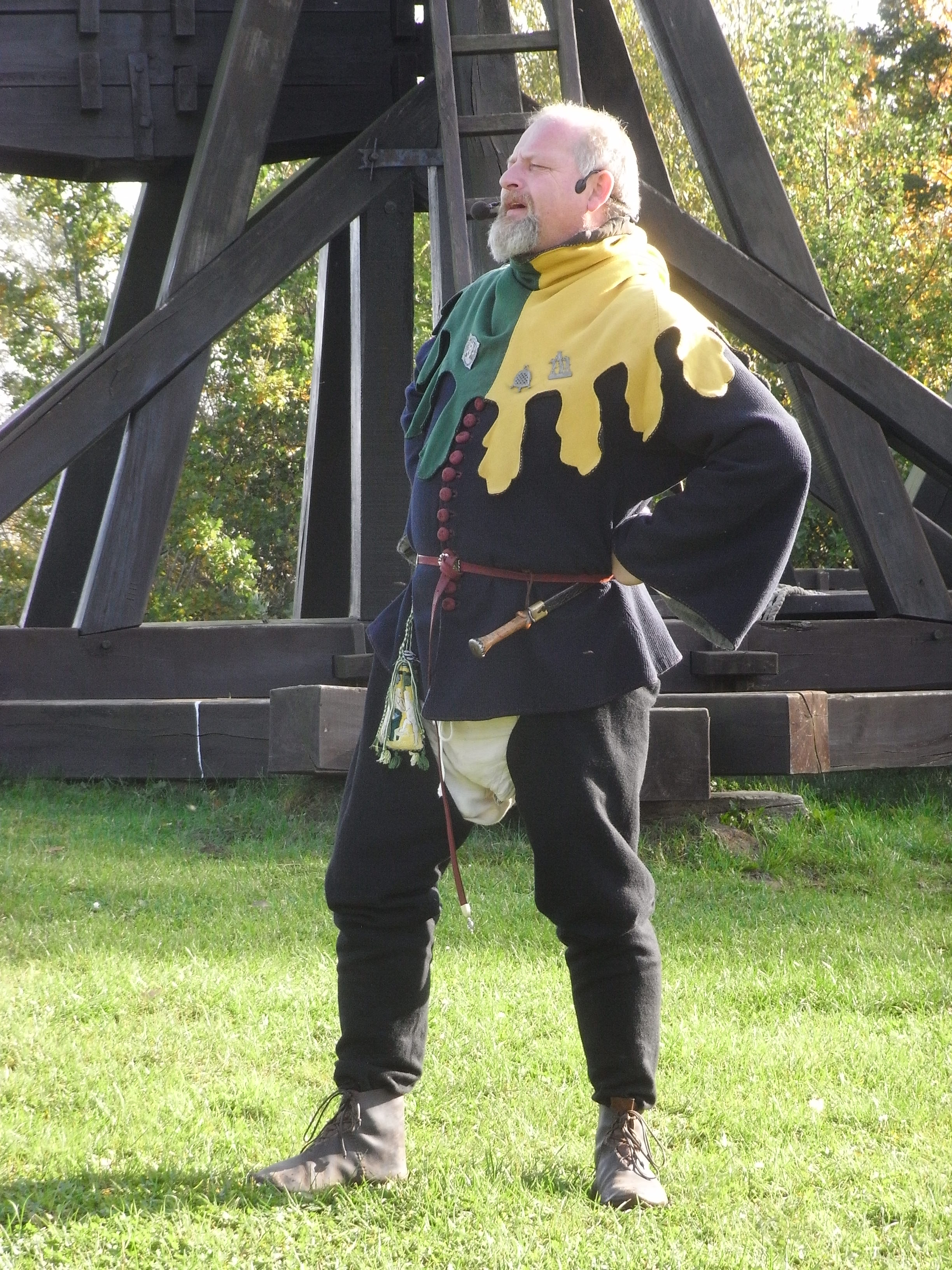 Danish historian, writer, lecturer Kåre Johannessen at Middelaldercentret